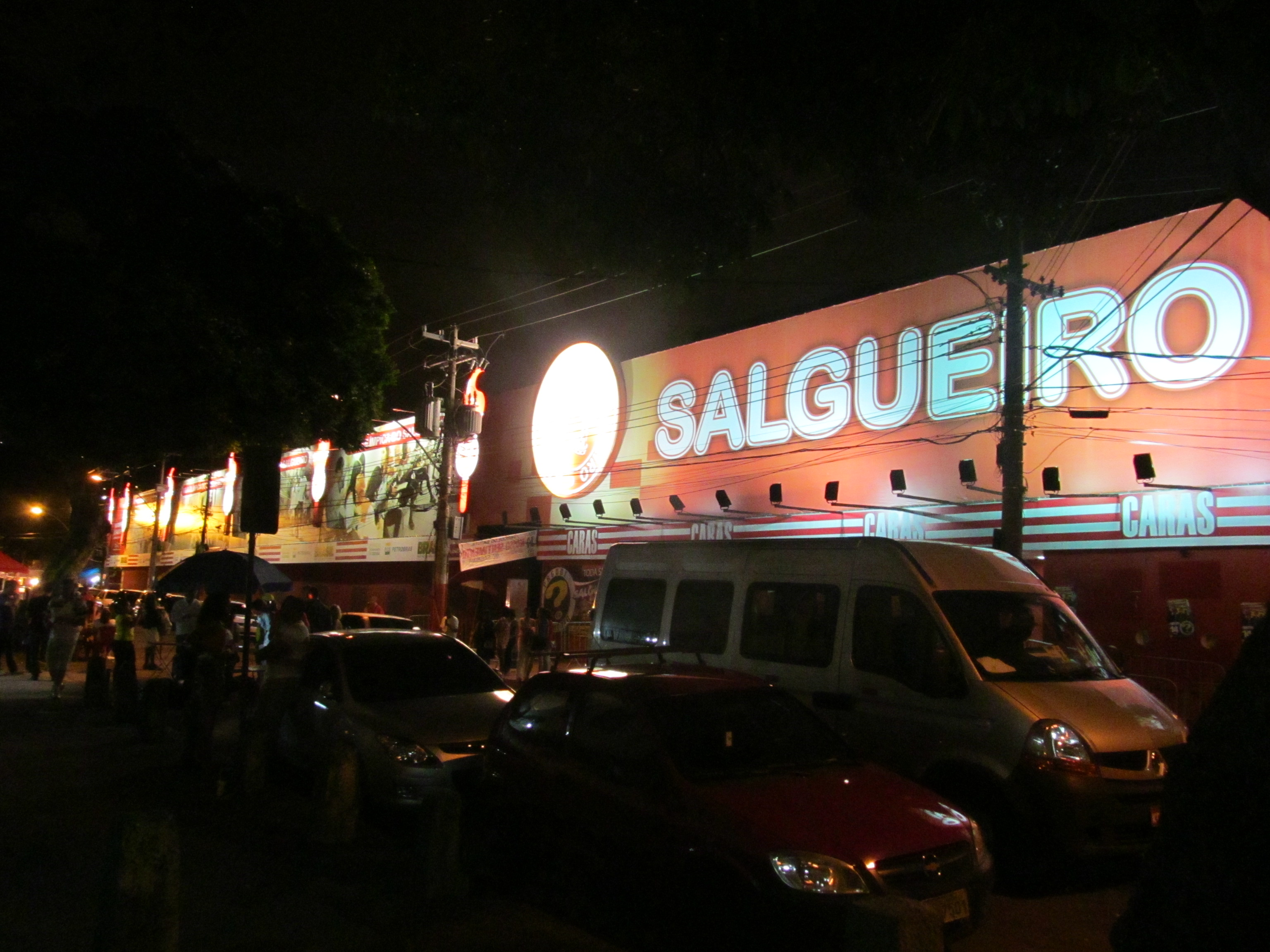 Take part at a Rio carnival rehearsal to get a real feel for the incredible spirit and excitement of Rio de Janeiro’s Carnival while visiting a competing samba school. Book now for an once-in-a-lifetime experience and let the rhythm of Rio Carnival bring out the samba within you! Without a doubt one of Rio’s top activities!